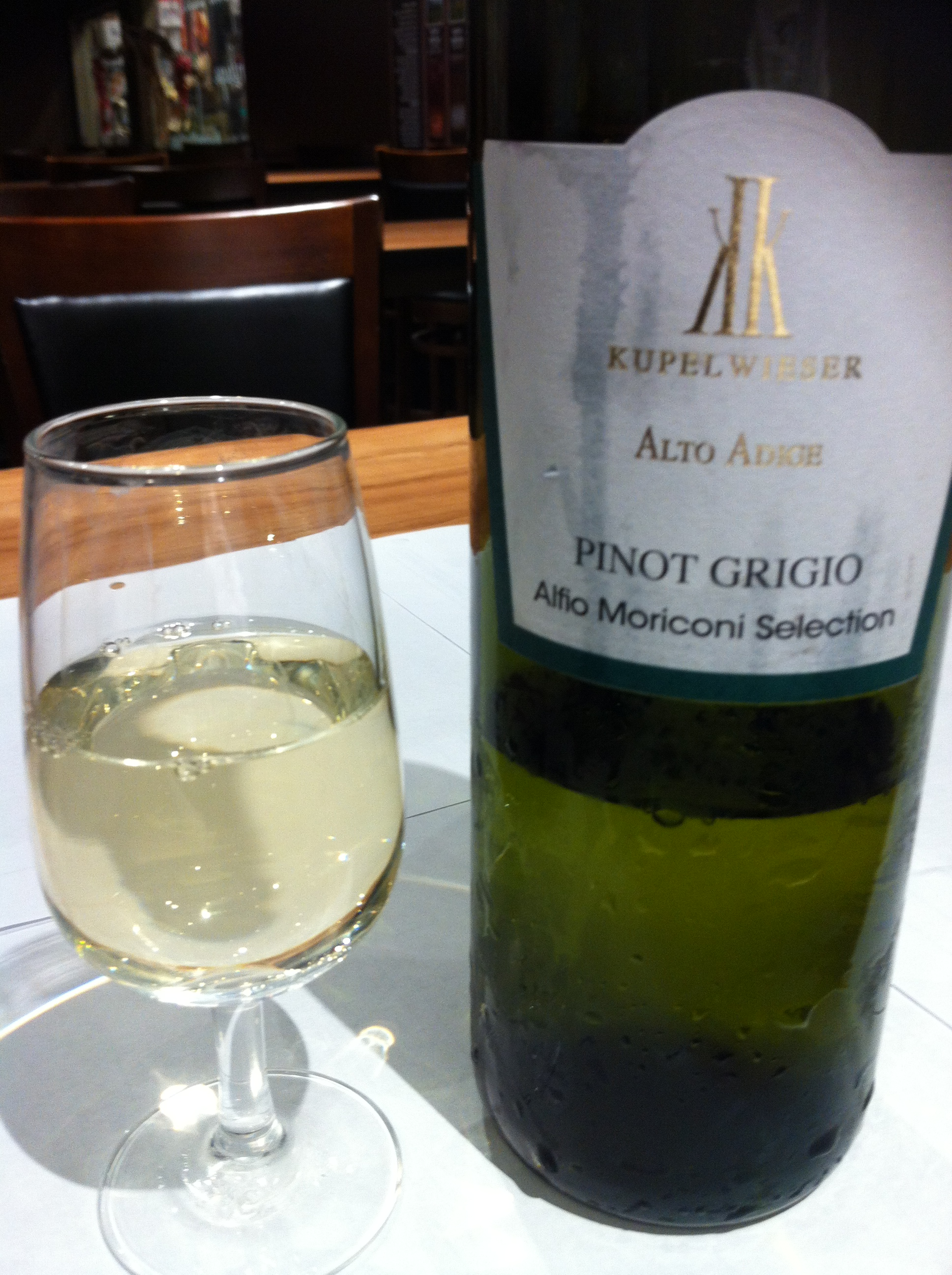 Italian white wine from the South Tyrol/Alto Adige region of northeast Italy